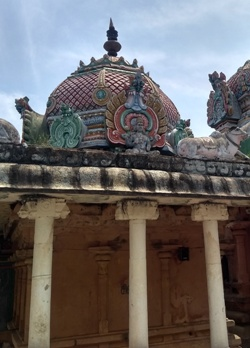 Vimana of Varthamanisvarar, Agnipurisvarar Temple, Tirupugalur, Nagapattinam District,Tamil Nadu, India